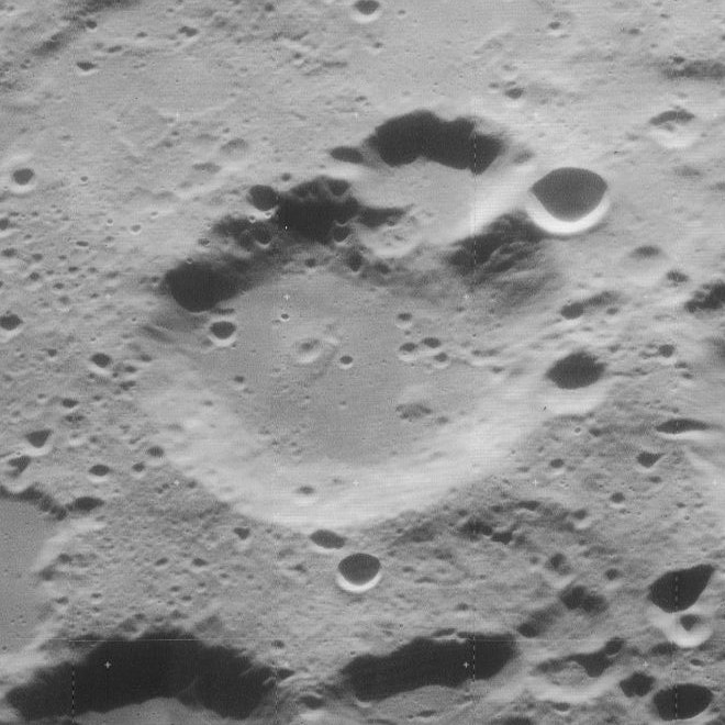 Slightly oblique view of Fraunhofer, on the moon, facing west.